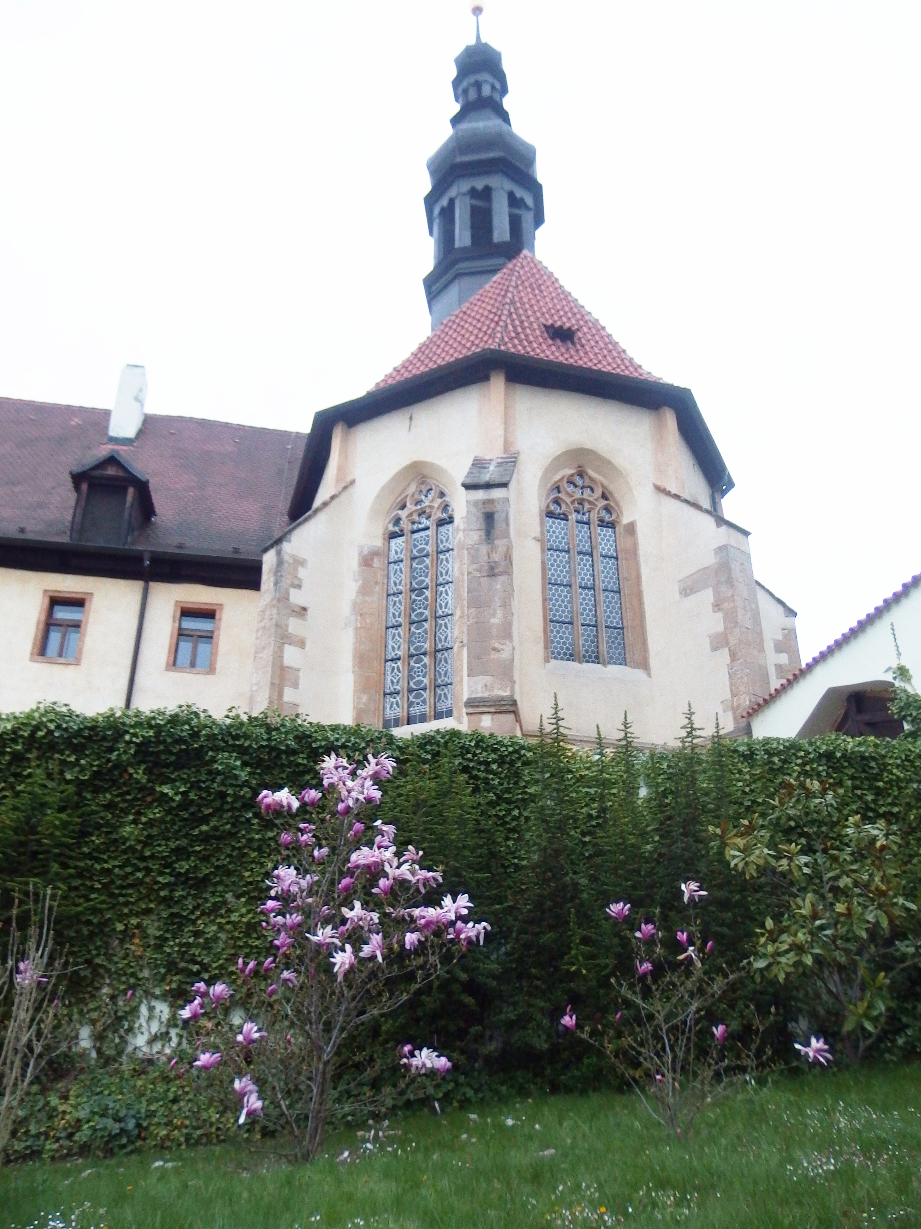 Kadaň, Chomutov District, Czech Republic.